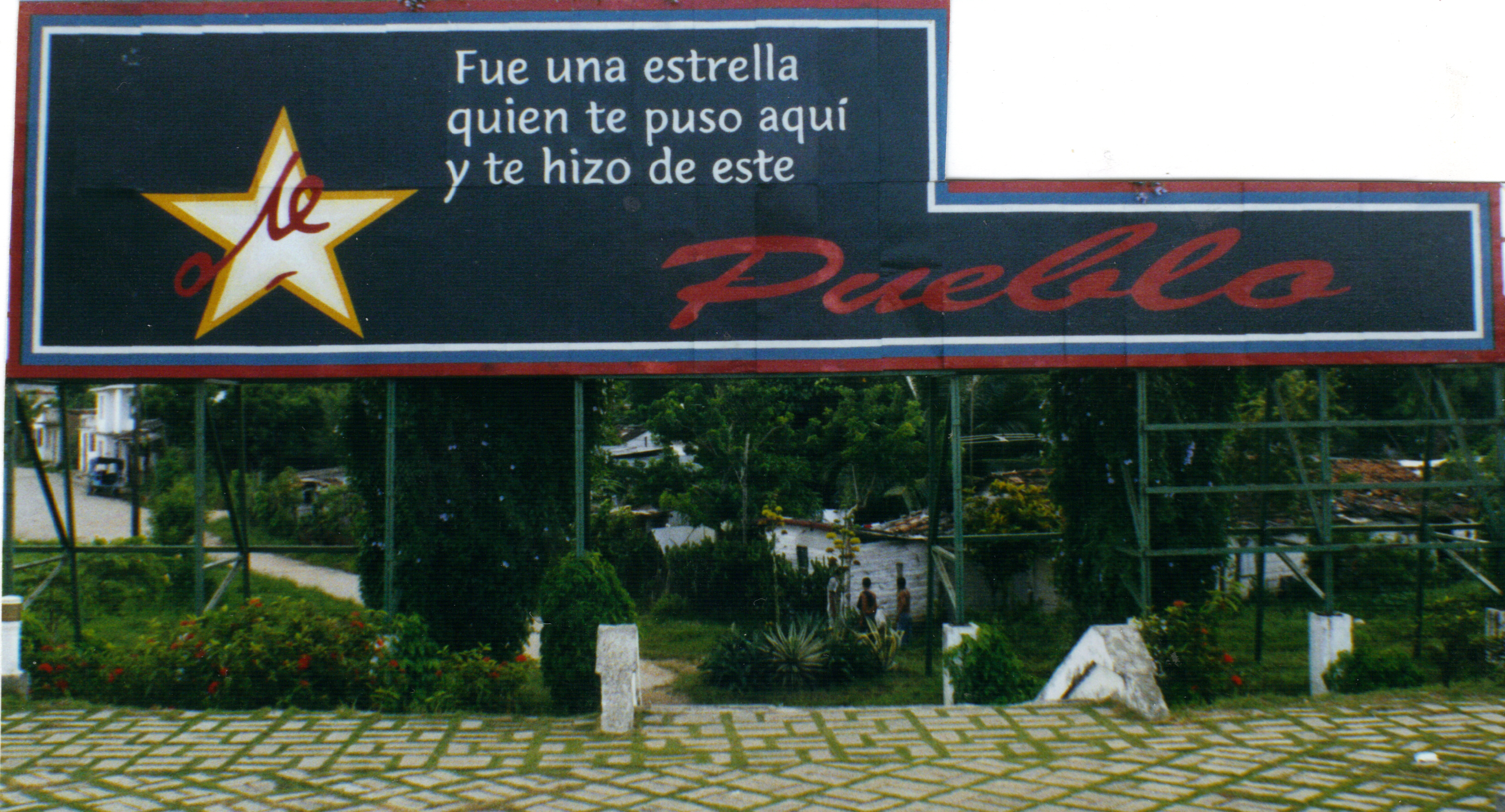 Santa Clara, Cuba. 2002, Billboard. praising Che Guevara." Text: It was a star which led you here and made you one of this people". Scan out of my photo album